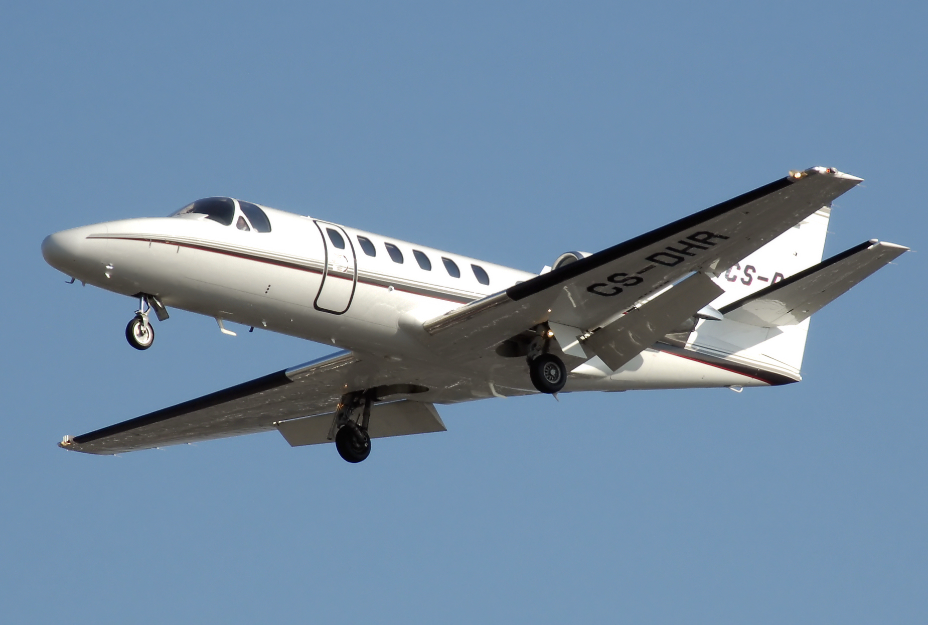 Cessna 550B Citation Bravo (with Portuguese registration CS-DHR) lands at London Heathrow Airport, England.